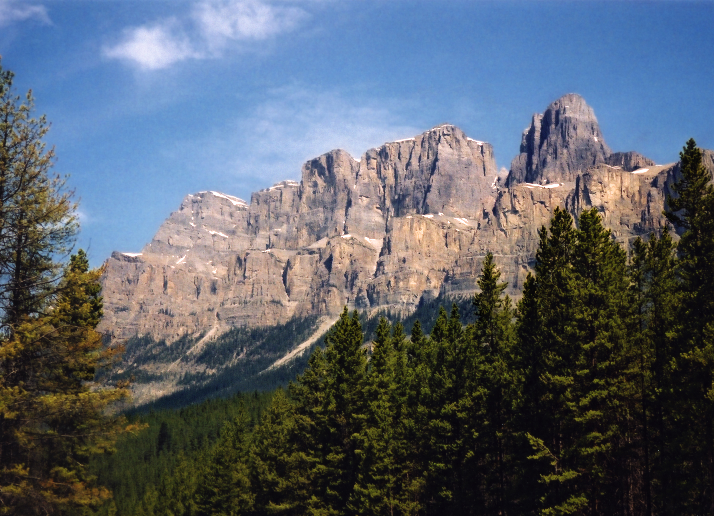 Castle Mountain in Banff National Park. The Stephen shale forms the break between the lower (Cathedral) and upper (Eldon) cliff-forming limestone layers.